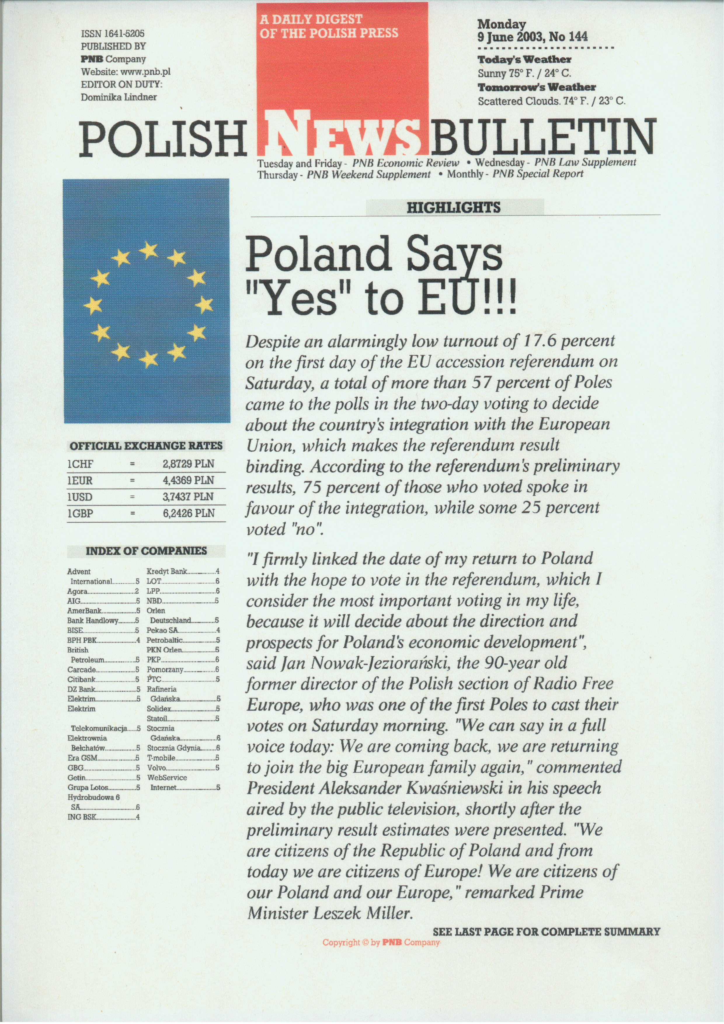 The Polish News Bulletin Daily - layout from 2004